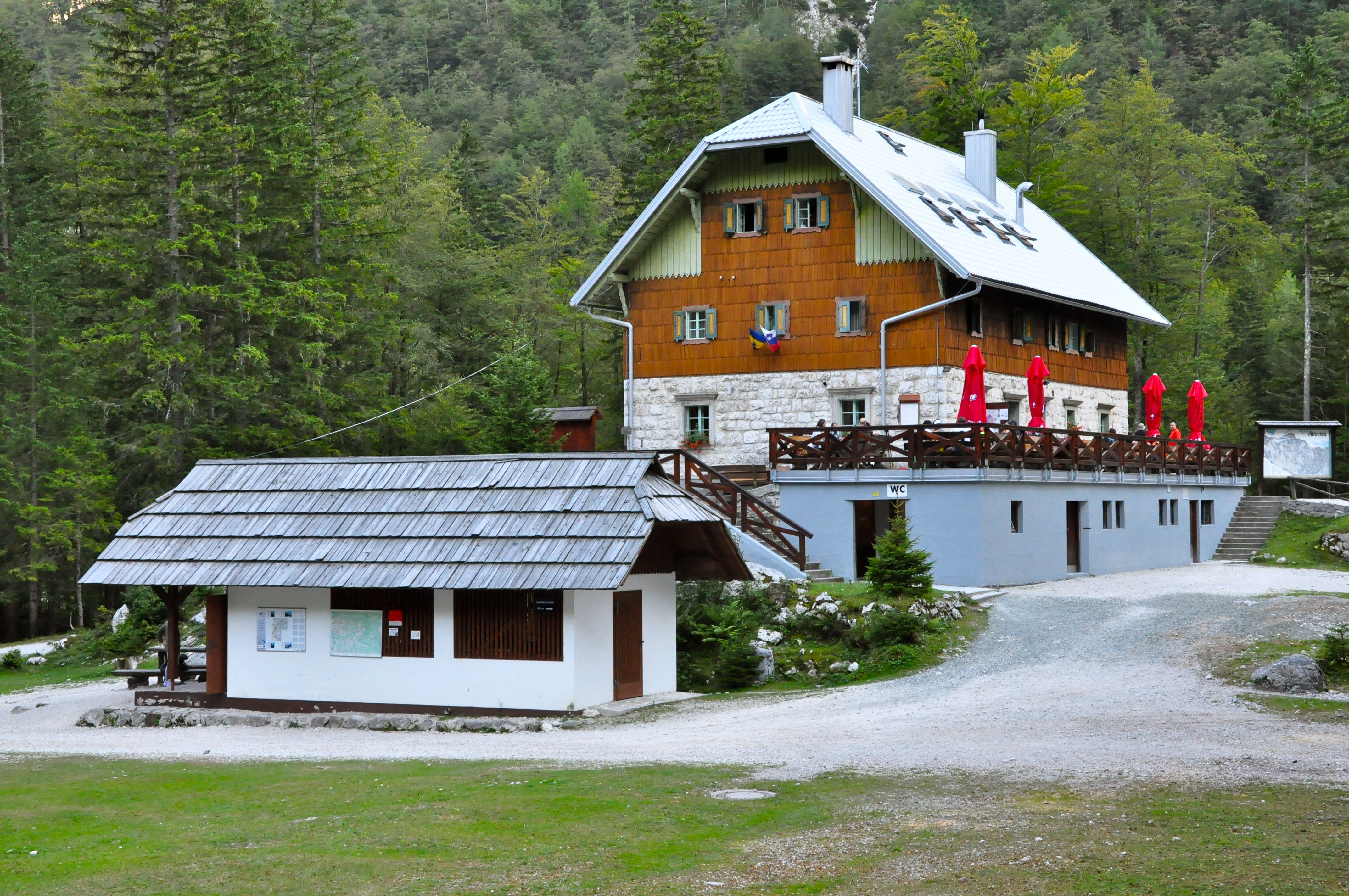 Jakob Aljaž's hut in Vrata Valley, Mojstrana, municipality Kranjska Gora, Gorenjska, Slovenia